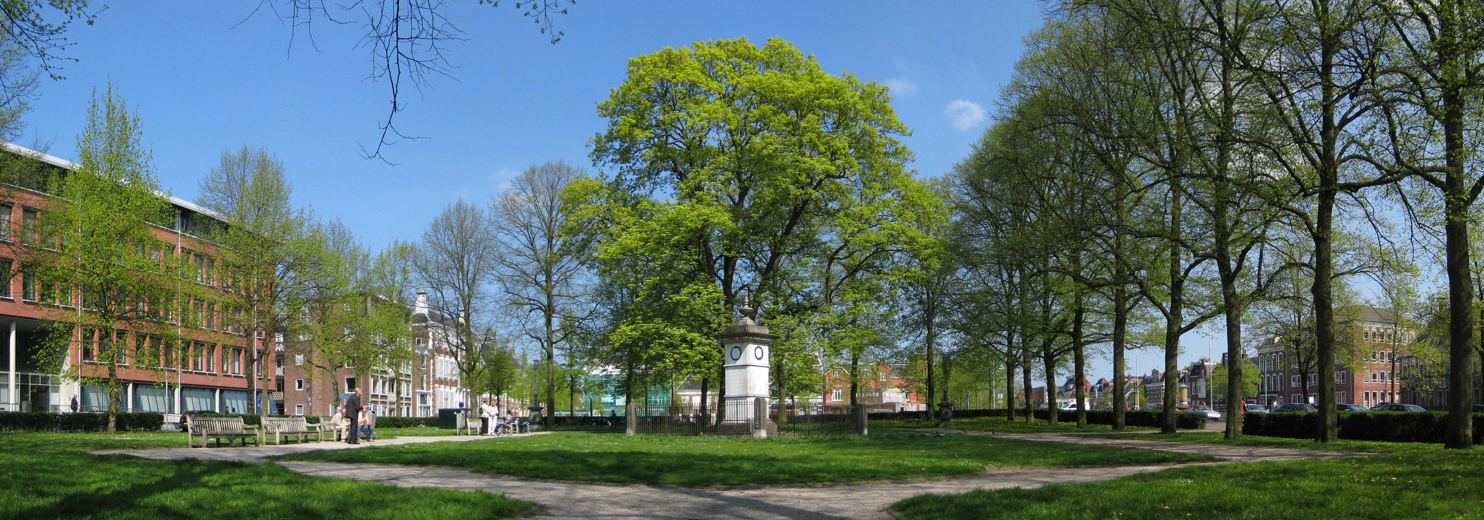 The Guyotplein in the Dutch city of Groningen.